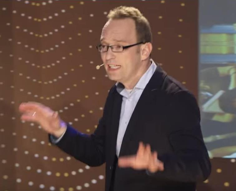 Sociology professor Gerben Moerman (University of Amsterdam), 18 March 2014